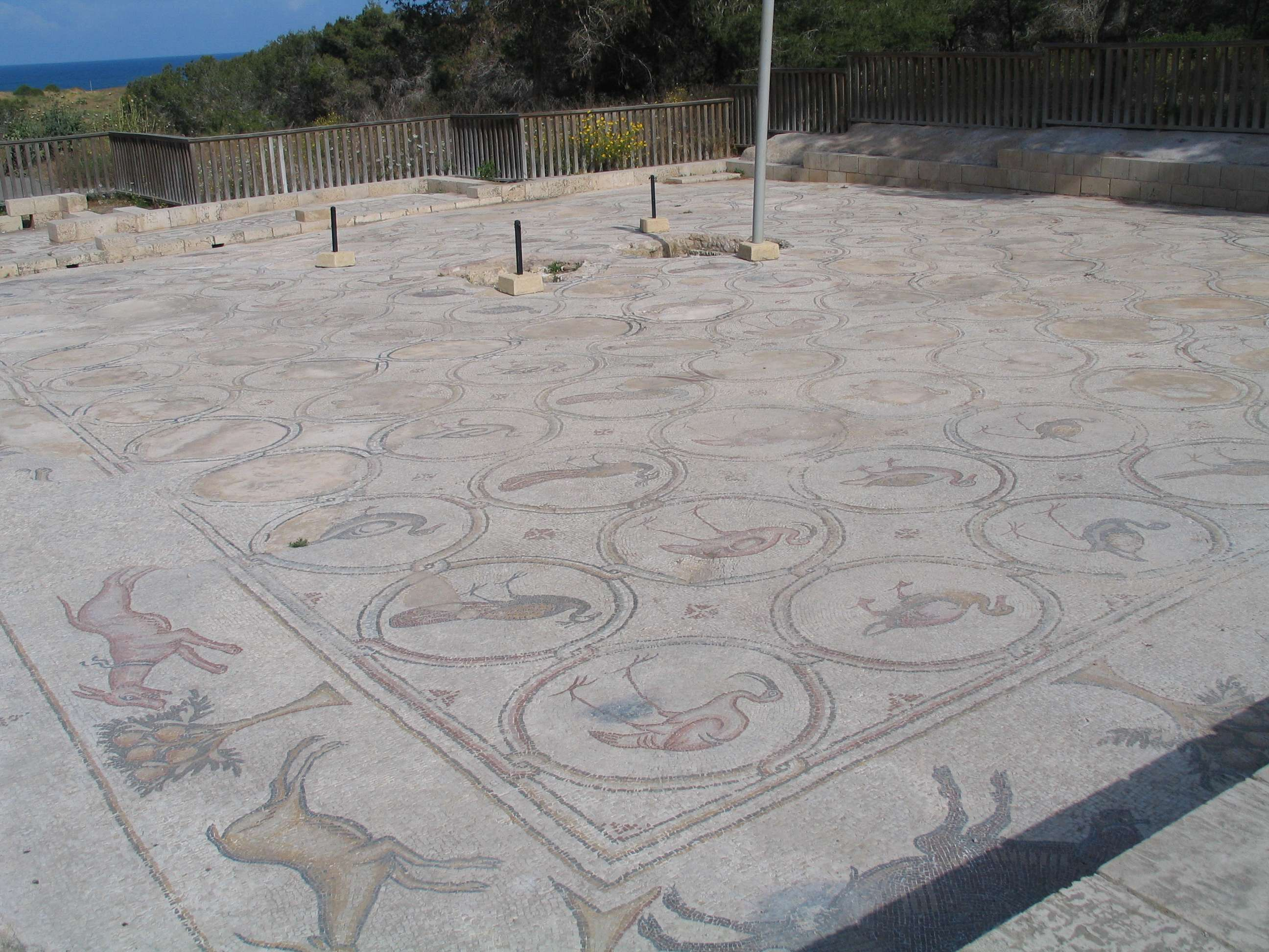 Caesarea Maritima, Israel. The "bird mosaic".